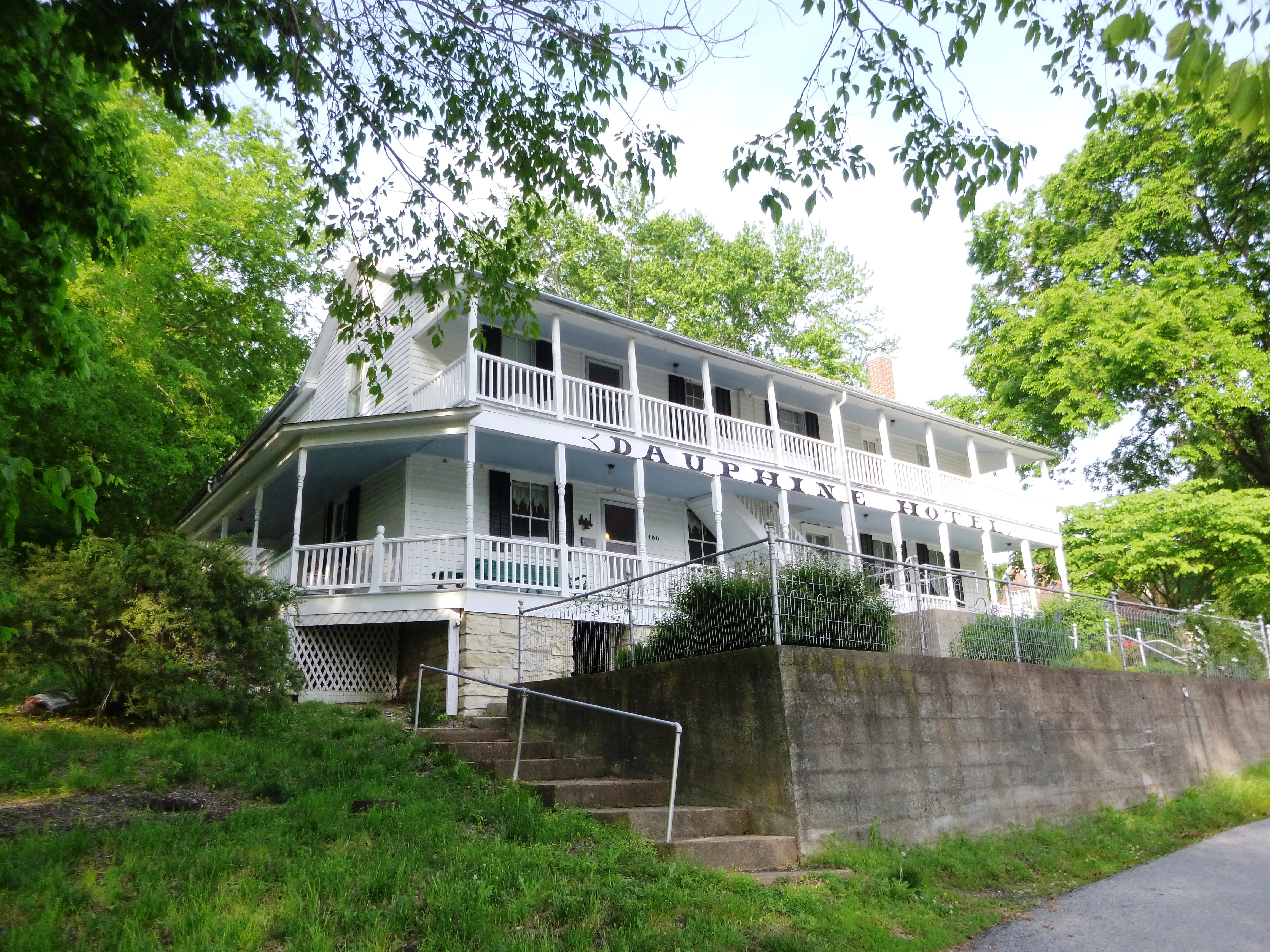 Dauphine Hotel JFoster